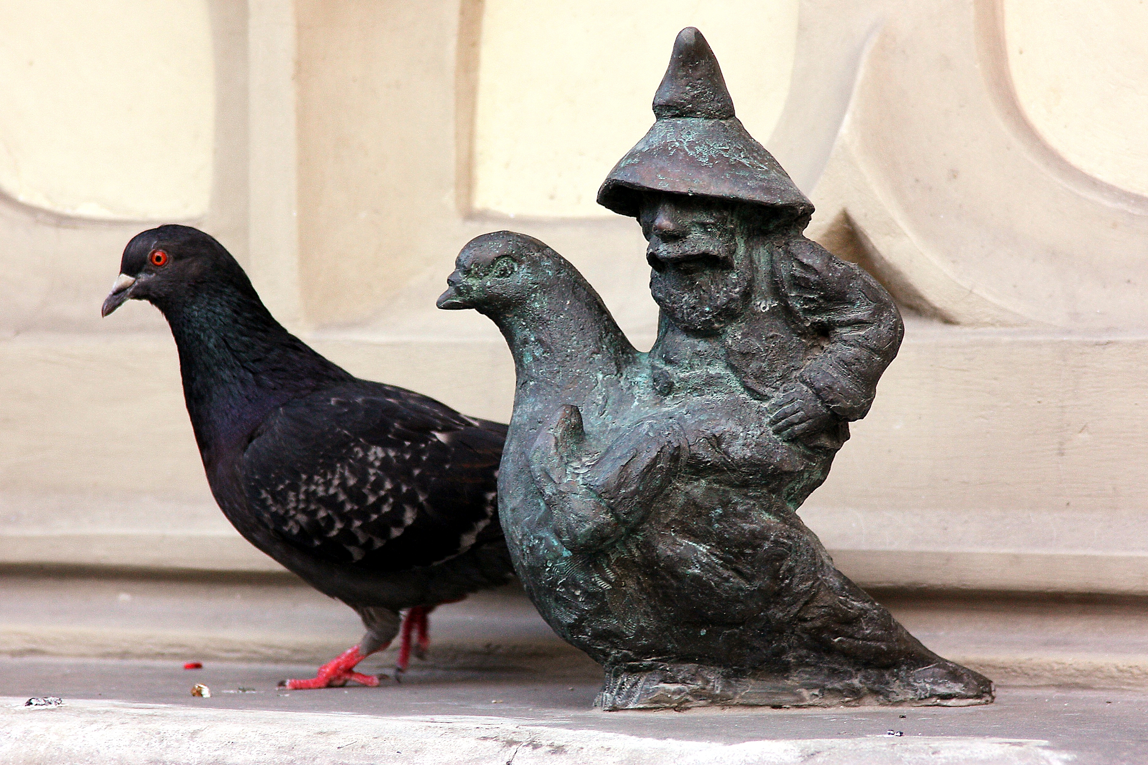 Pigeon-keeper (Gołębnik) on windowsill of Mini Brewery and Restaurant Spiż on Rynek Ratusz 2.